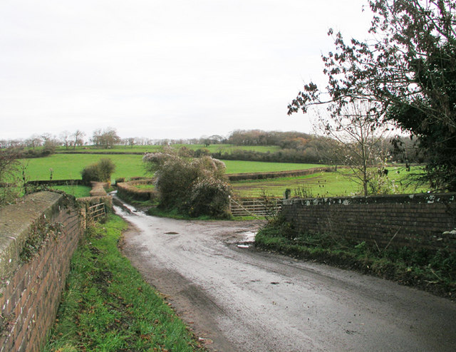 Farm land at Wrinstone, Wenvoe In the foreground is the railway bridge near the old Wenvoe Station. The trees in the background are Coed y Cwmdda